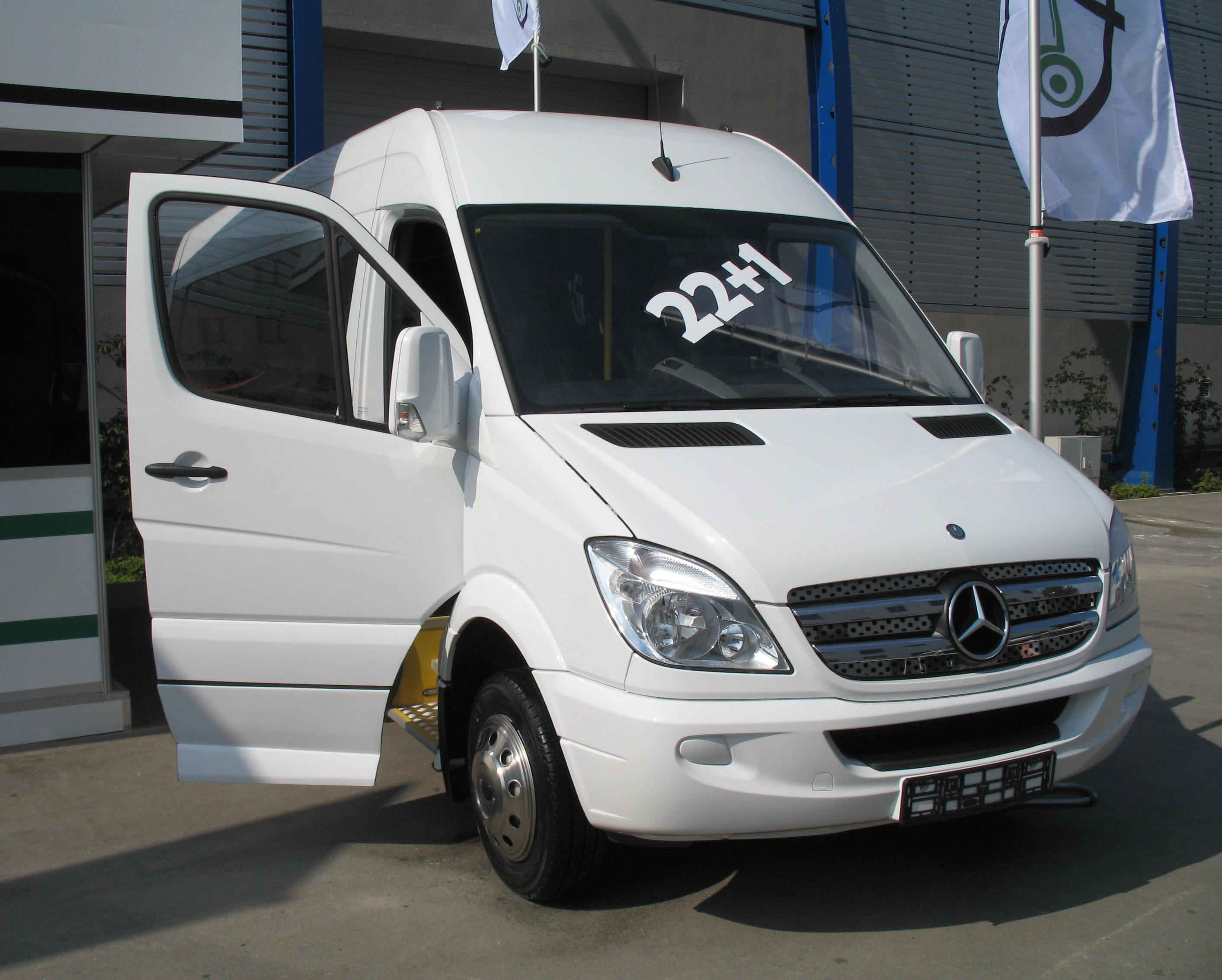 Automet Mercedes-Benz Sprinter bus in Kielce, Poland. Built 2009. Transexpo 2009.